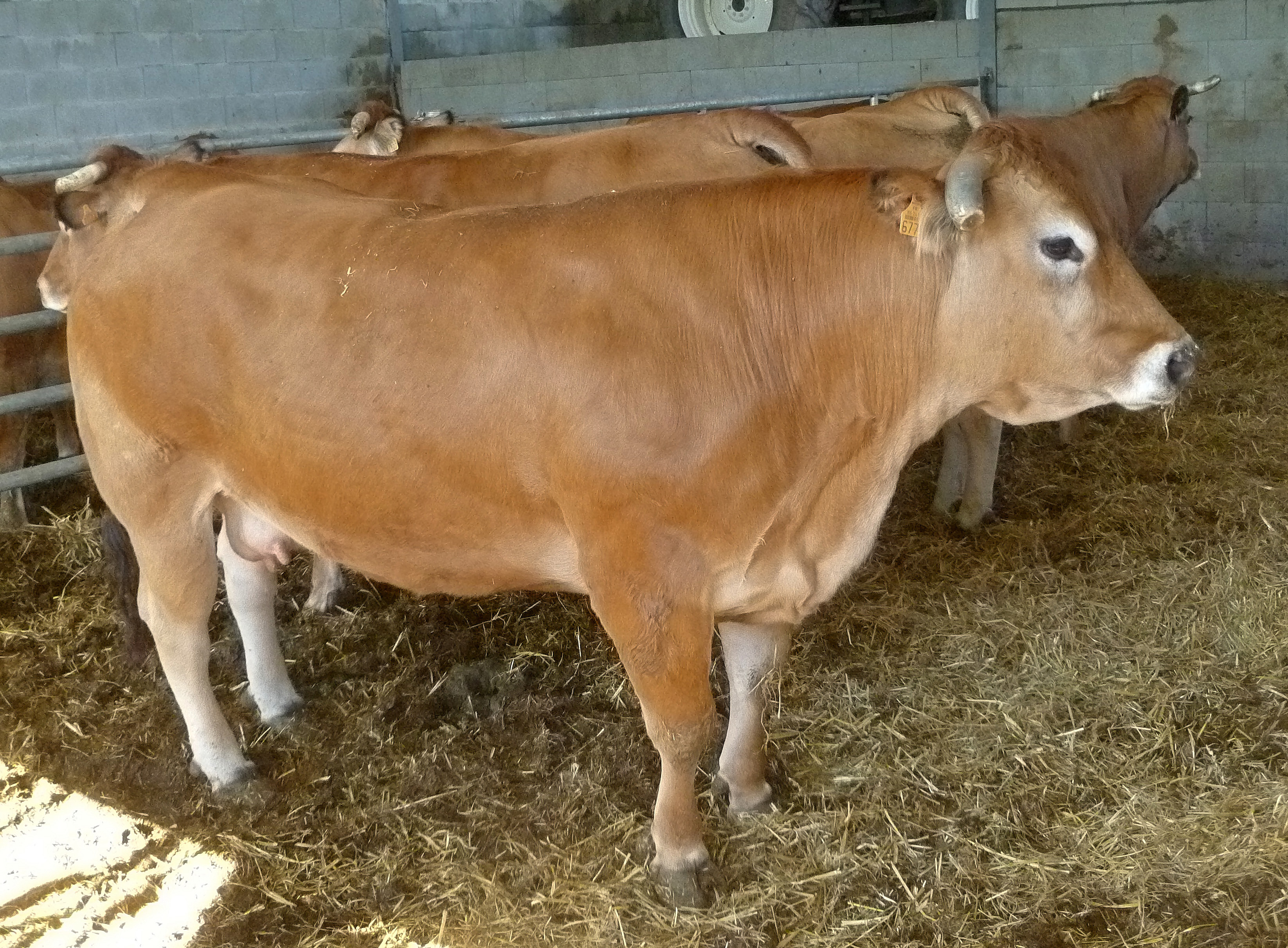 Parthenais cattle, Chambretaud, France